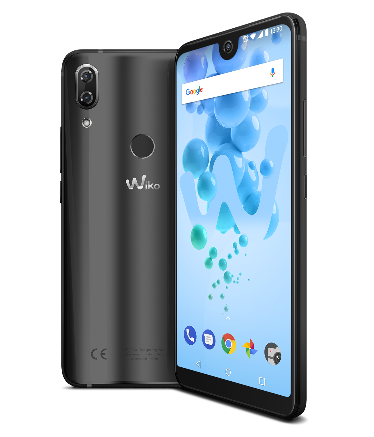 View2 Pro